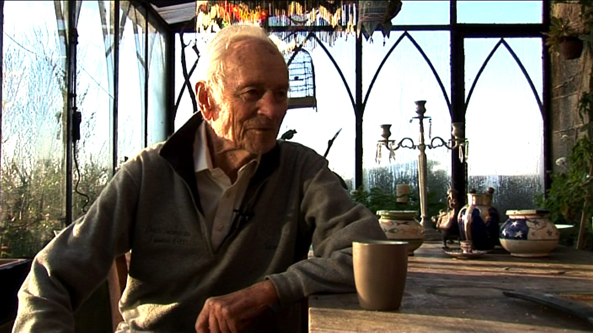 Freeze frame taken from video interview, conduced by Luke Leslie in Oranmore Castle December 08.